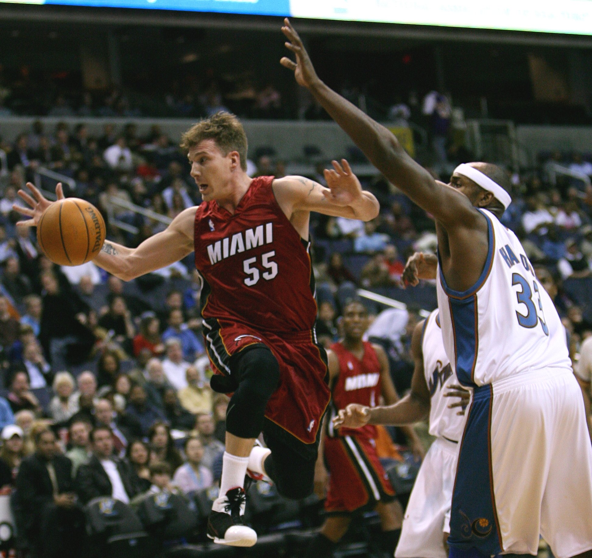 Jason Williams, of the Miami Heat, saves the loose ball